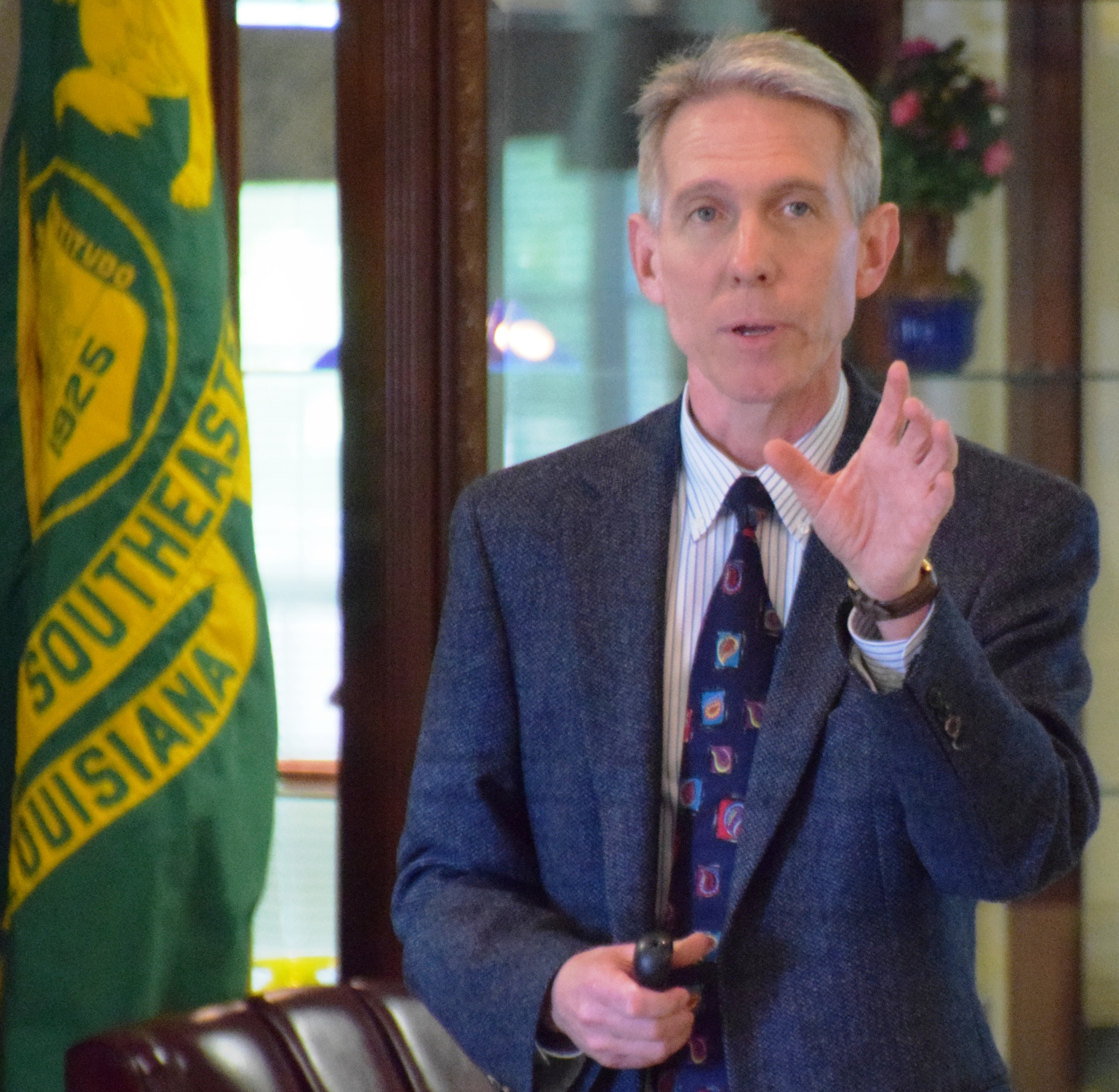 Southeastern President John Crain addresses the Faculty Senate about the Fiscal Year 2016 budget.